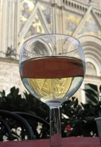 A glass of Orvieto wine, with the Duomo as the backdrop.